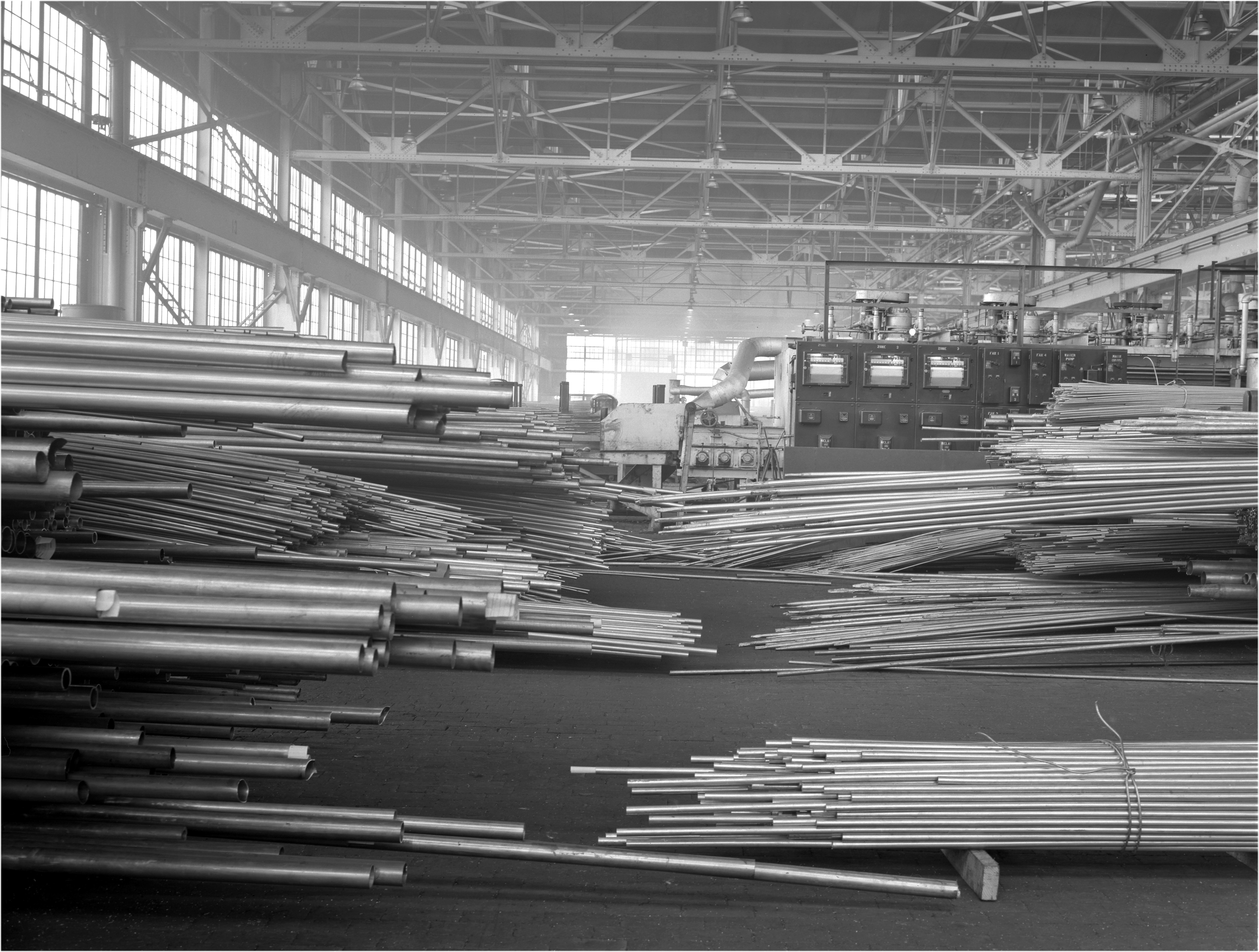 Original description from caption card: “Conversion. Copper and brass processing. The inside of a large brass and copper tube mill. Copper tubes are made in many sizes, and in many alloys, and are needed for war production in hundreds of different ways--from small diameter tubing for gas and oil lines in airplanes and tanks and motor cars to large diameter tubes used in construction of our battleships. A tube annealing furnace may be seen to the right. Chase Brass and Copper Company, Euclid, Ohio.”